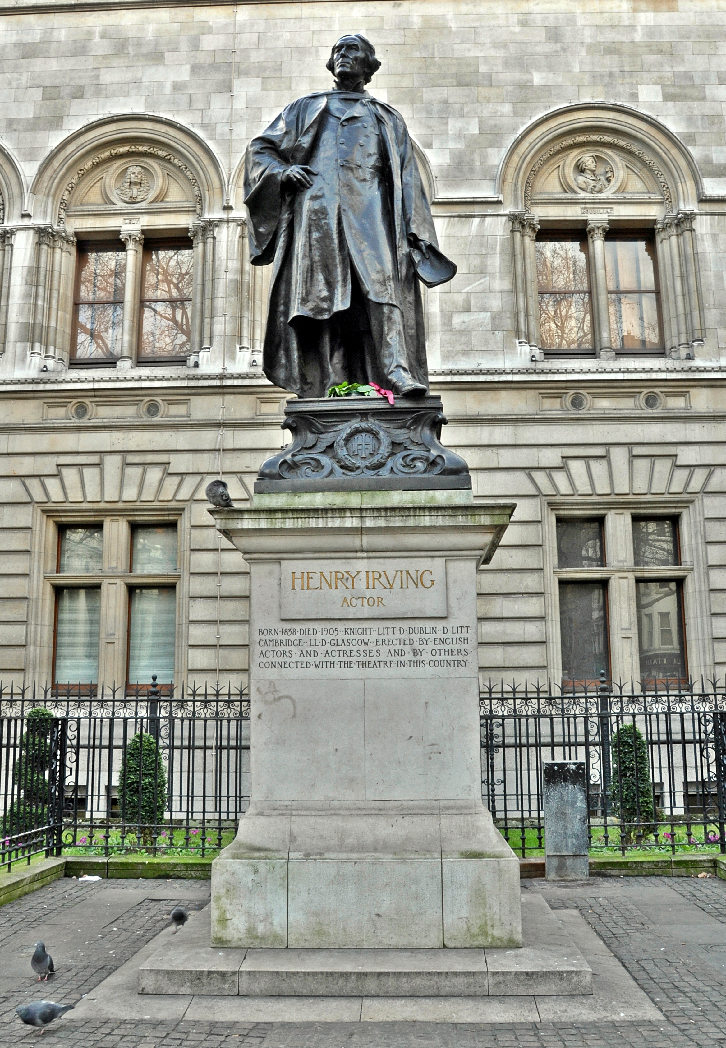 Statue of Henry Irving next to National Portrait Gallery in London